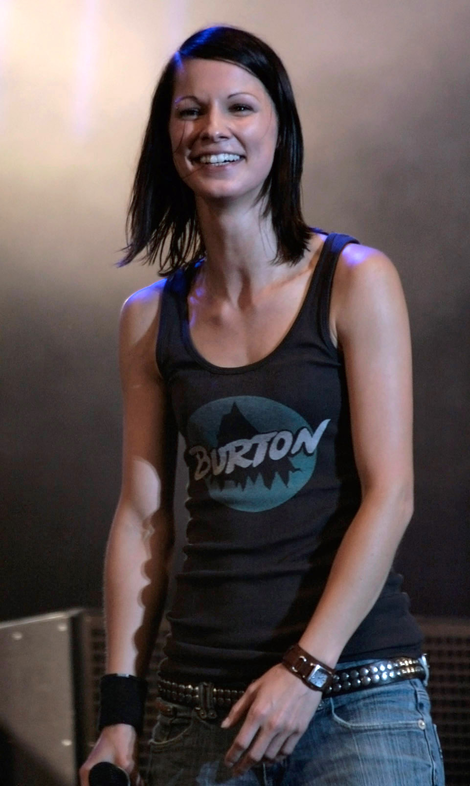 Christina Stürmer & Band at the Donauinselfest 2009